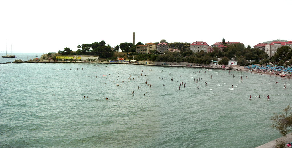 Beach Bačvice in Split, Croatia